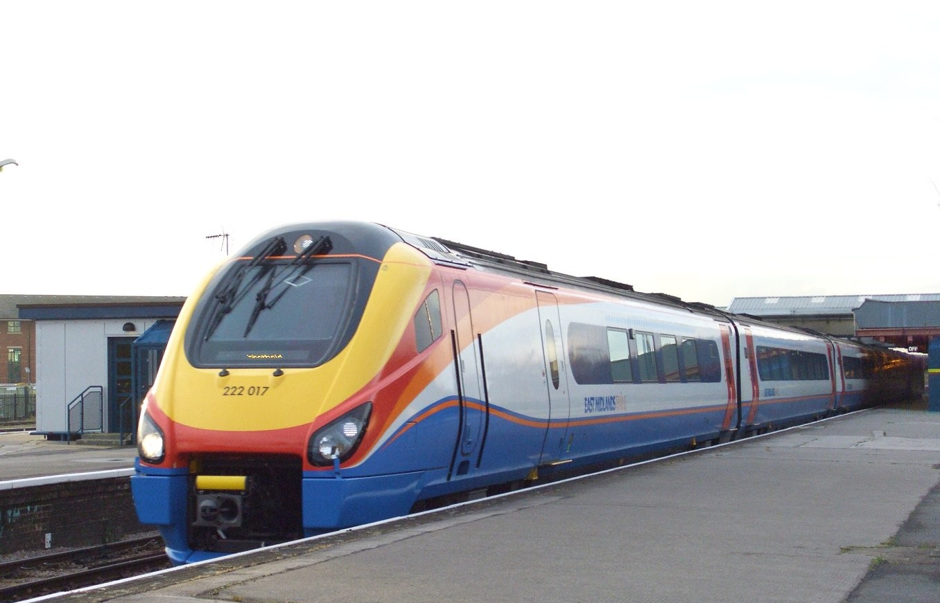 East Midlands Trains British Rail Class 222 number 222017 at Derby railway station.